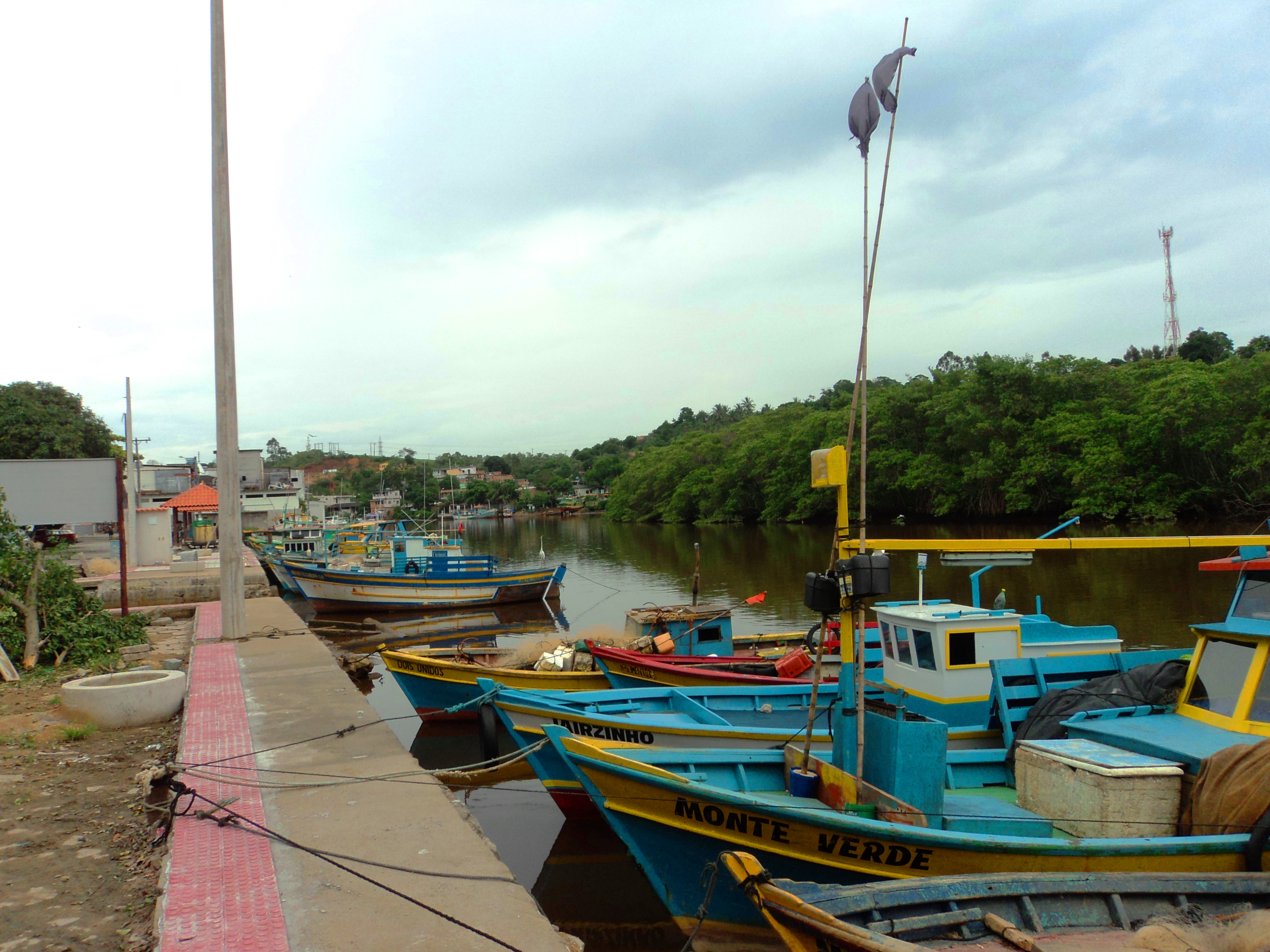 Boats in Piúma, Espírito Santo, Brazil.